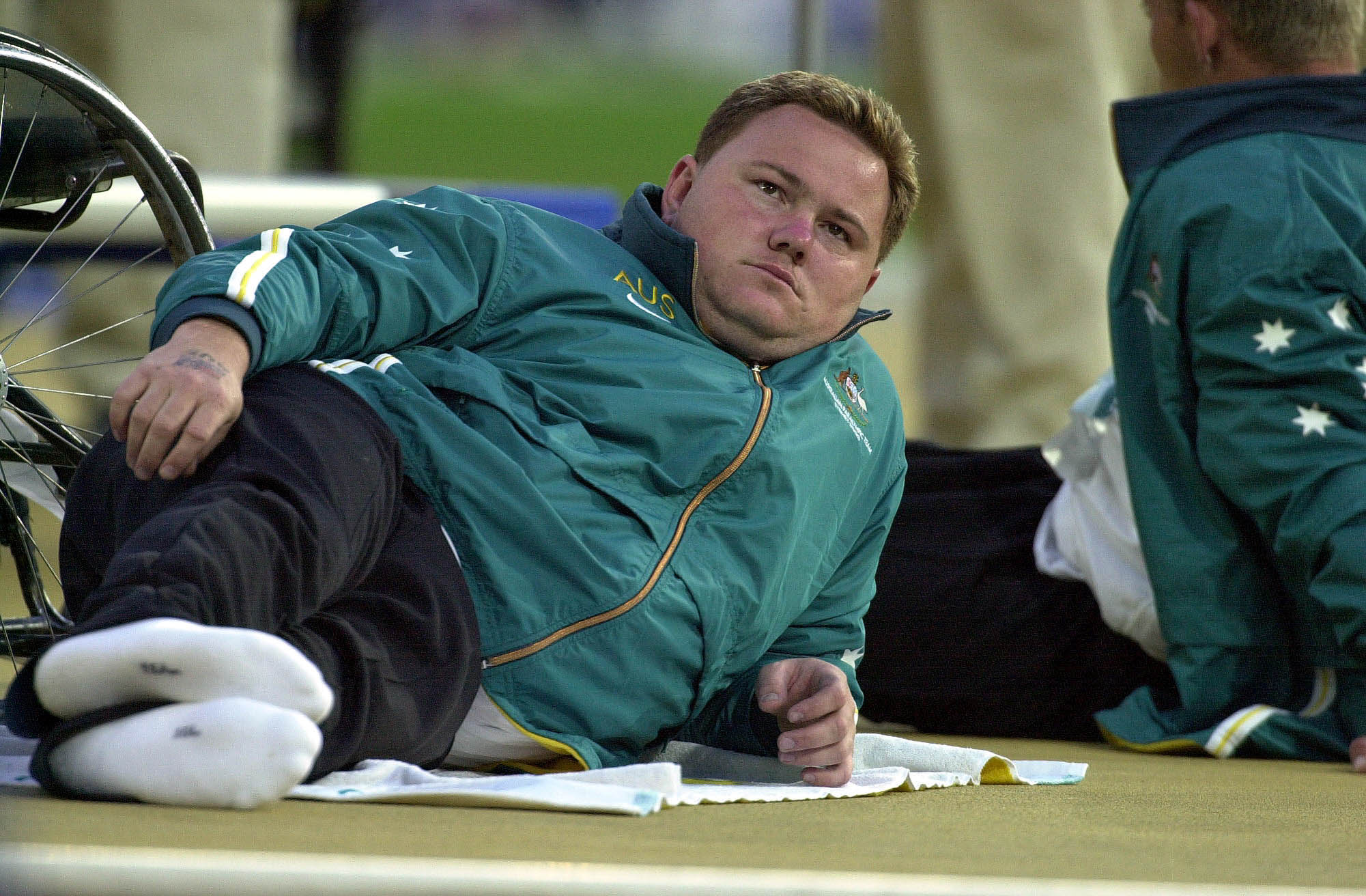 Australian discus thrower Stephen Eaton relaxes on the grass during the discus F34 final event at the 2000 Sydney Paralympic Games, Day 03